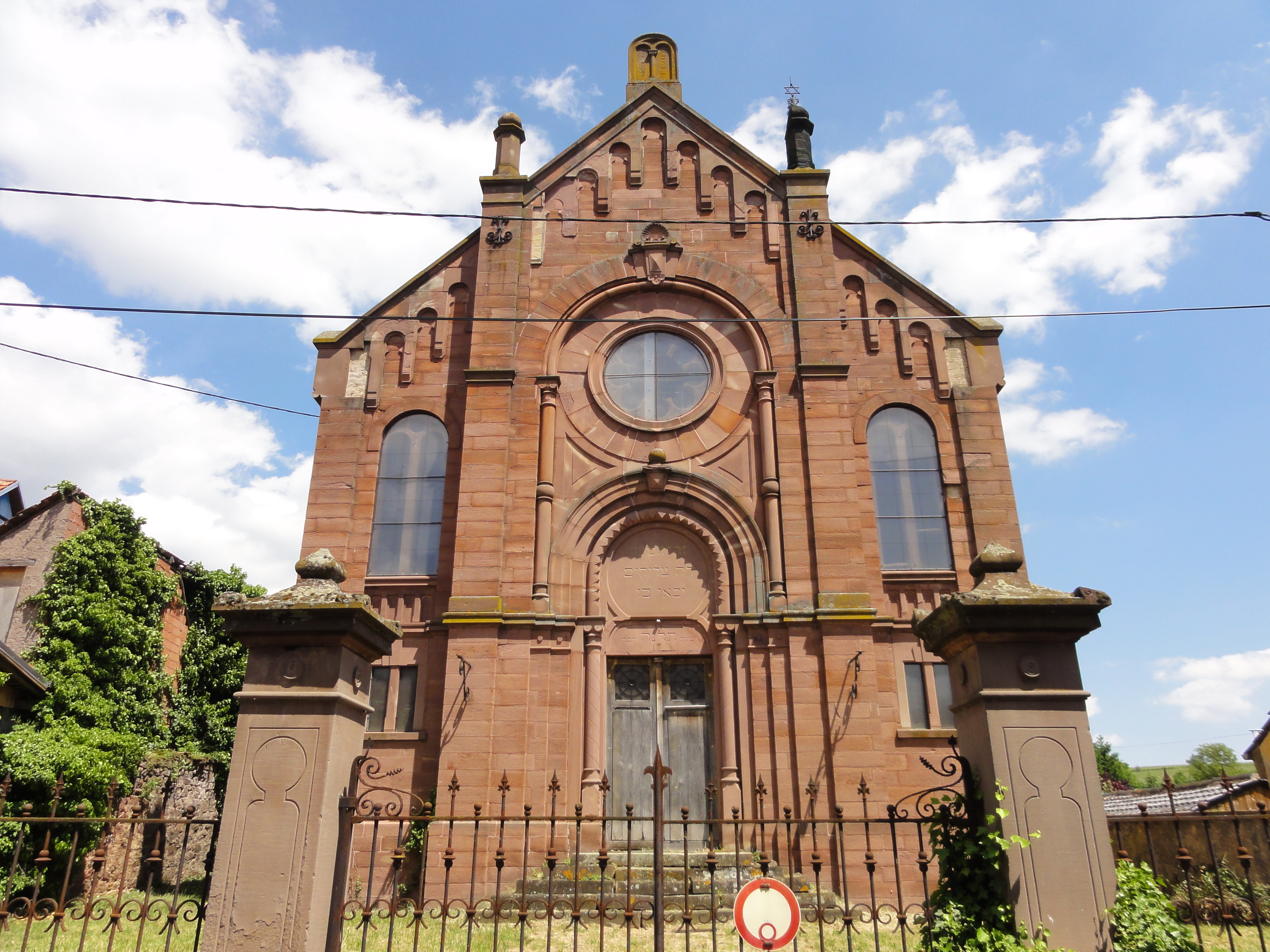 Alsace, Bas-Rhin, Balbronn, Synagogue (1895), rue des Femmes. It is indexed in the Base Mérimée, a database of architectural heritage maintained by the French Ministry of Culture, under the references PA67000036 and IA67006517.